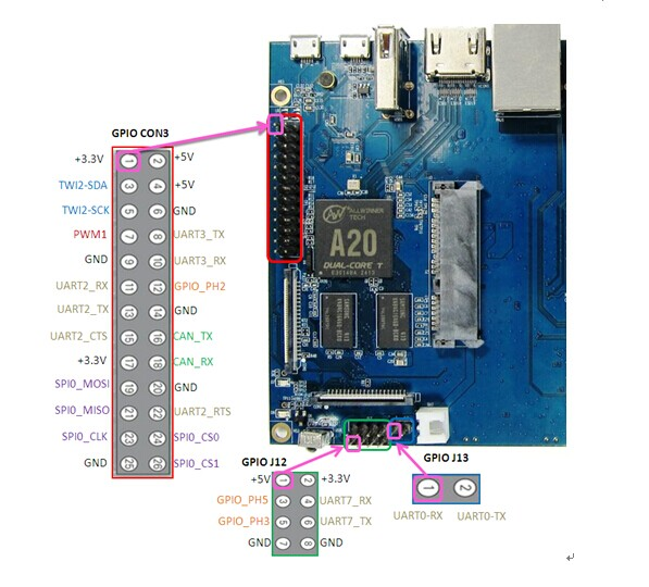 BPI-R1